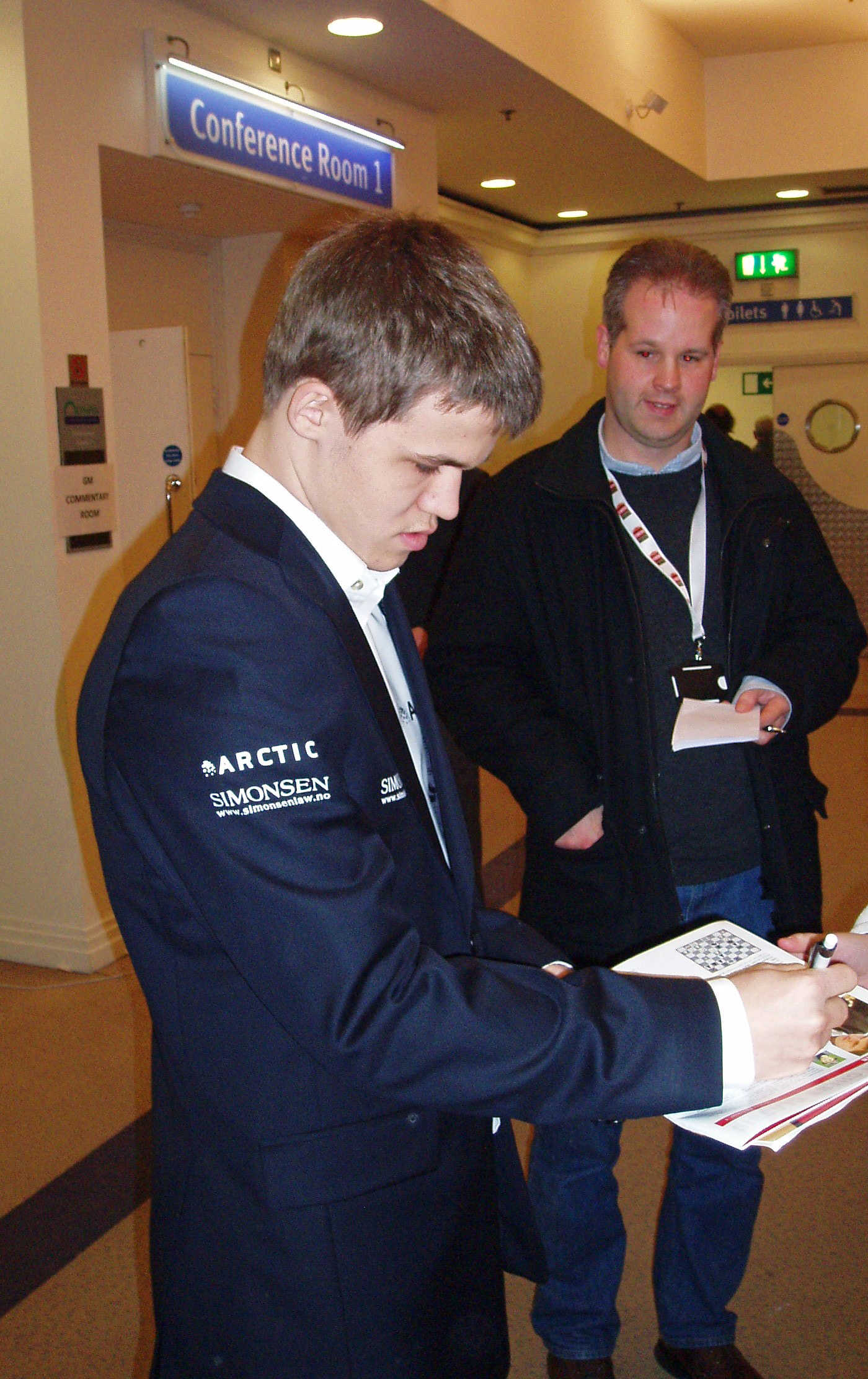 Magnus Carlsen signing autographs at the London Chess Classic, London, UK.